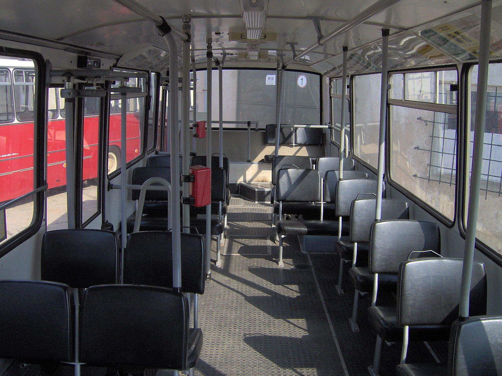 Interior of historical bus Karosa B 732 in Brno, Czech Republic